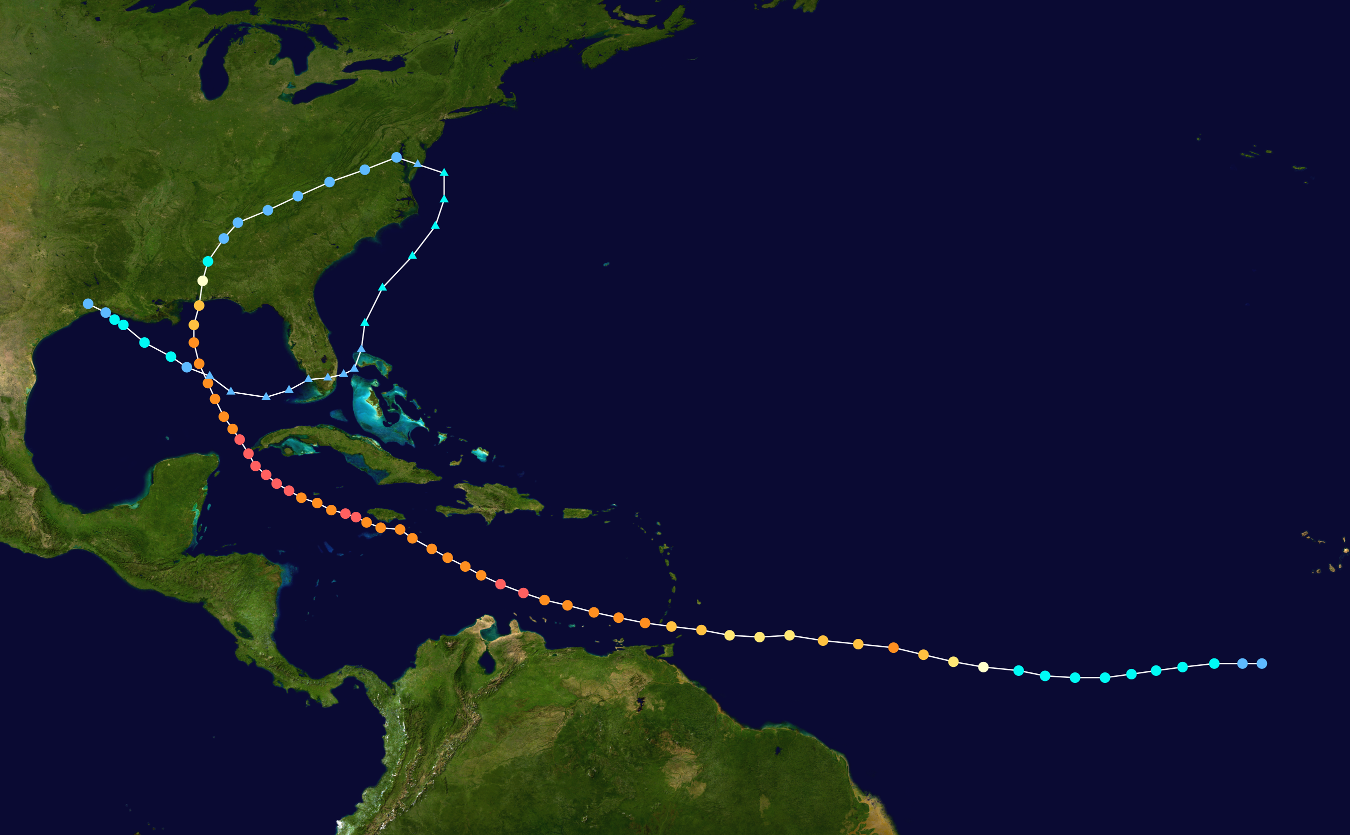 Track map of Hurricane Ivan of the 2004 Atlantic hurricane season. The points show the location of the storm at 6-hour intervals. The colour represents the storm's maximum sustained wind speeds as classified in the Saffir–Simpson scale (see below), and the shape of the data points represent the nature of the storm, according to the legend below. Saffir–Simpson scale Tropical depression≤38 mph≤62 km/h Category 3111–129 mph178–208 km/h Tropical storm39–73 mph63–118 km/h Category 4130–156 mph209–251 km/h Category 174–95 mph119–153 km/h Category 5≥157 mph≥252 km/h Category 296–110 mph154–177 km/h Unknown Storm type Tropical cyclone Subtropical cyclone Extratropical cyclone / Remnant low / Tropical disturbance / Monsoon depression